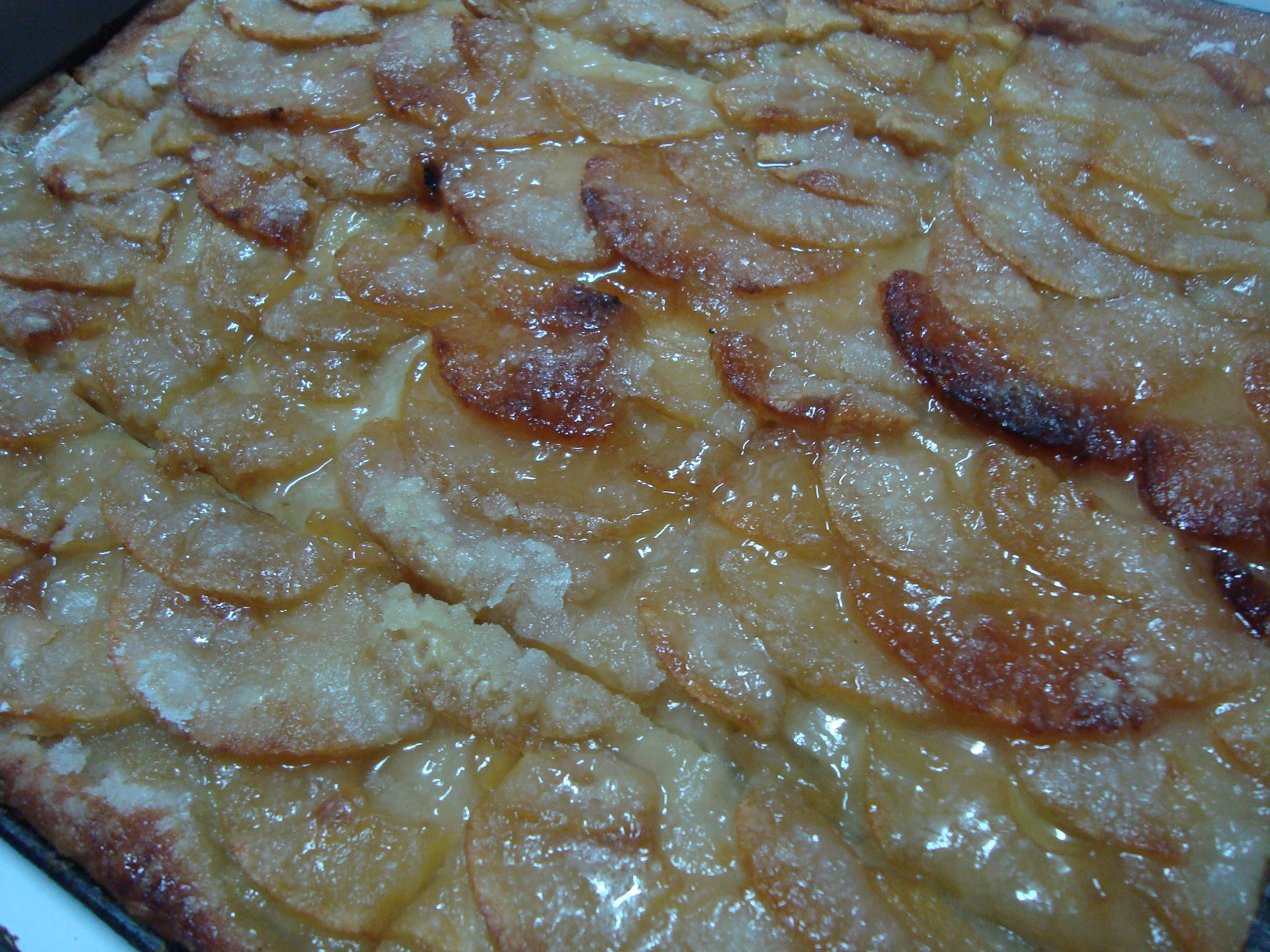 Apple Coke